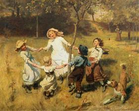 Work by Frederick Morgan (painter)